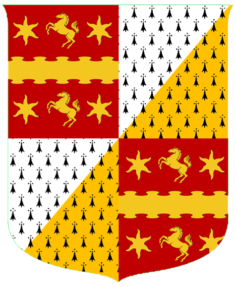 Shield of arms of The Lord Vaux of Harrowden; Quarterly: 1st and 4th, Gules a fess nebuly or, in chief and in base, a horse rampant between two estoiles of the last (Gilbey); 2nd and 3rd, Per bend sinister ermine and erminois, a lion rampant or (Mostyn)